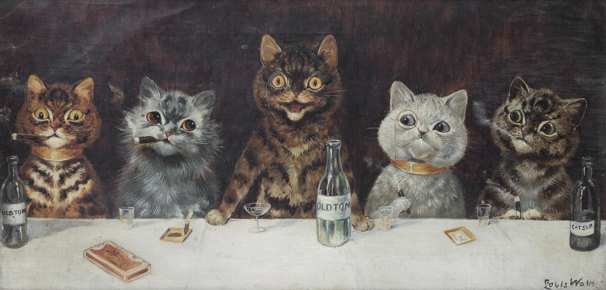 The bachelor party. Signed Louis Wain. Oil on canvas, 29.5 x 60 cm